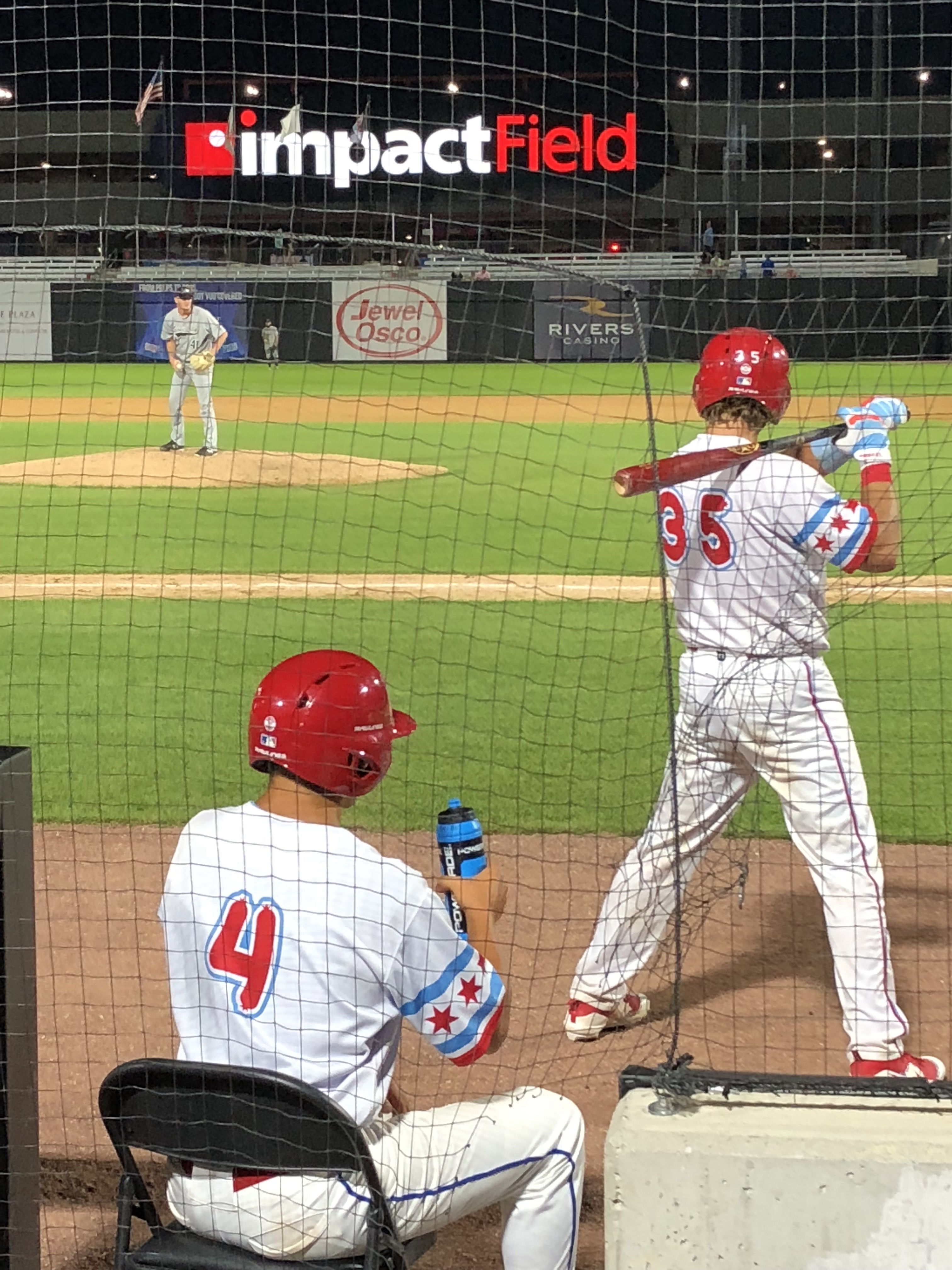 The Chicago Dogs independent professional baseball team, playing at Impact Field in Rosemont, Illinois.